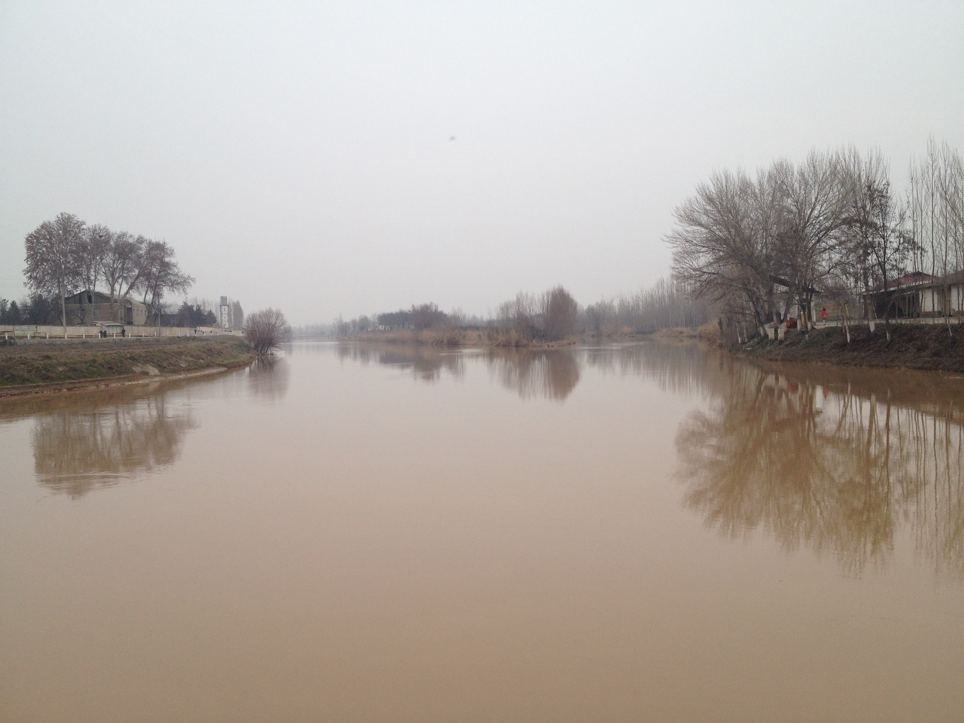 Great Fergana Canal (Kara Darya tract) near Andijan city